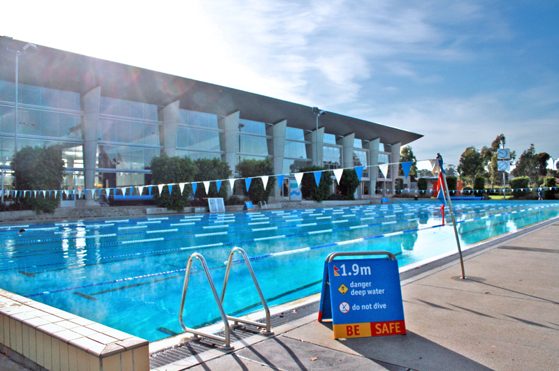 Outdoor Swimming Pool on a Sunny Day